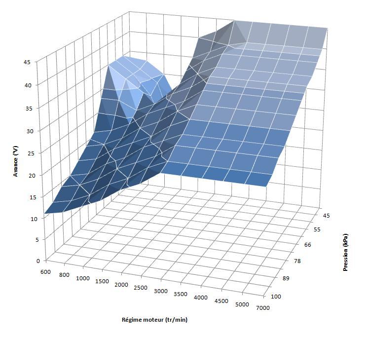 Cartography of petrol engine